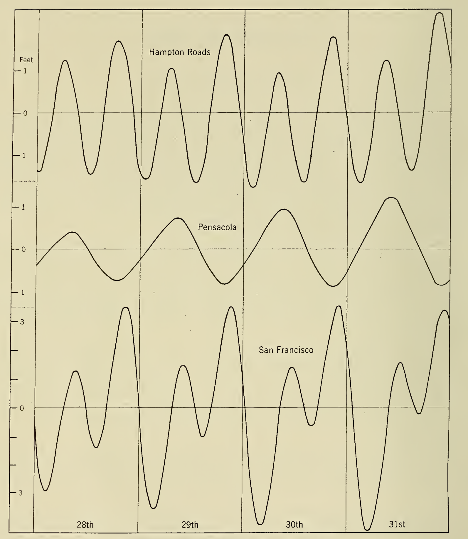 Diagram illustrating the three types of tide: semidaily; daily; and mixed. Figure 2, p 10, from Marmer, H.A. (1927) Tidal datum planes, US Government Printing Office